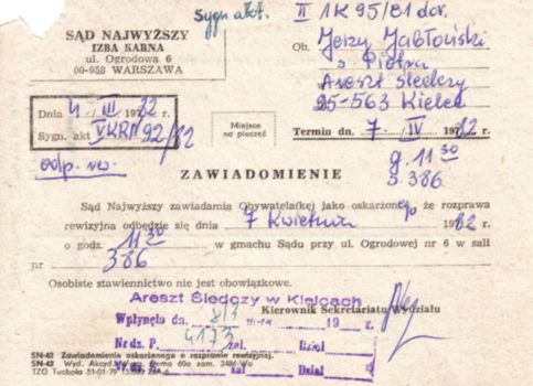 document about Polish anti - communist political prisoner Jerzy Jablonski (2)